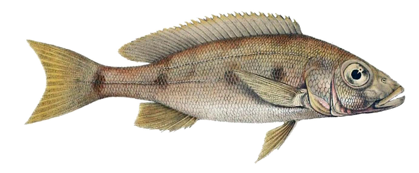 Giant cichlid, also known as the Emperor cichlid (Boulengerochromis microlepis) is an African species of cichlid endemic to Lake Tanganyika